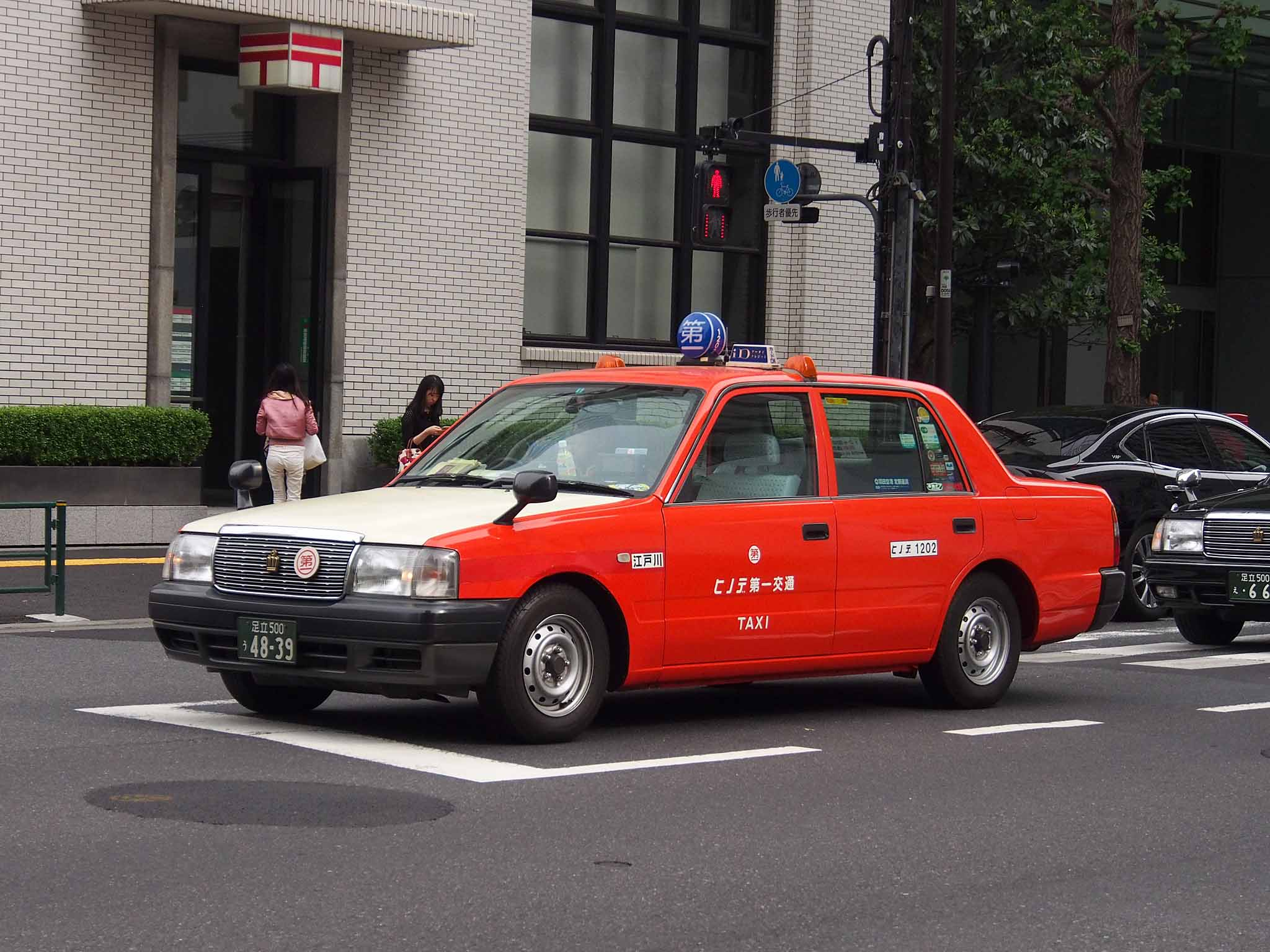 Fleet of Hinode Daiichi Kotsu, former member of Checker Cab. License plate: TKA500U4839 Place: Marunouchi, Chiyoda Ward, Tokyo Japan